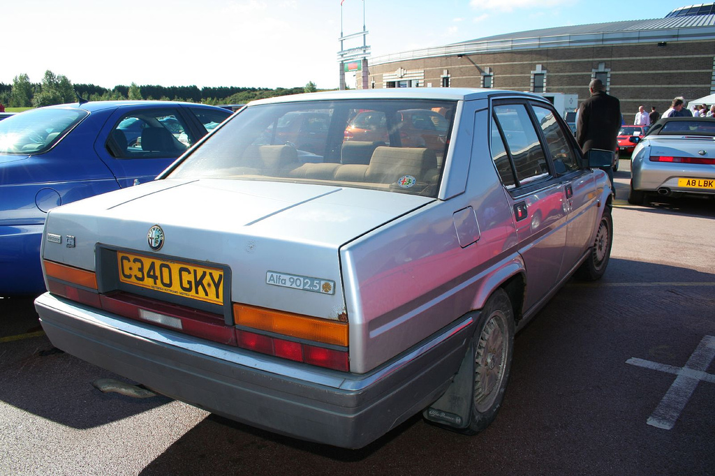 1985 Alfa Romeo Alfa 90 2.5 V6